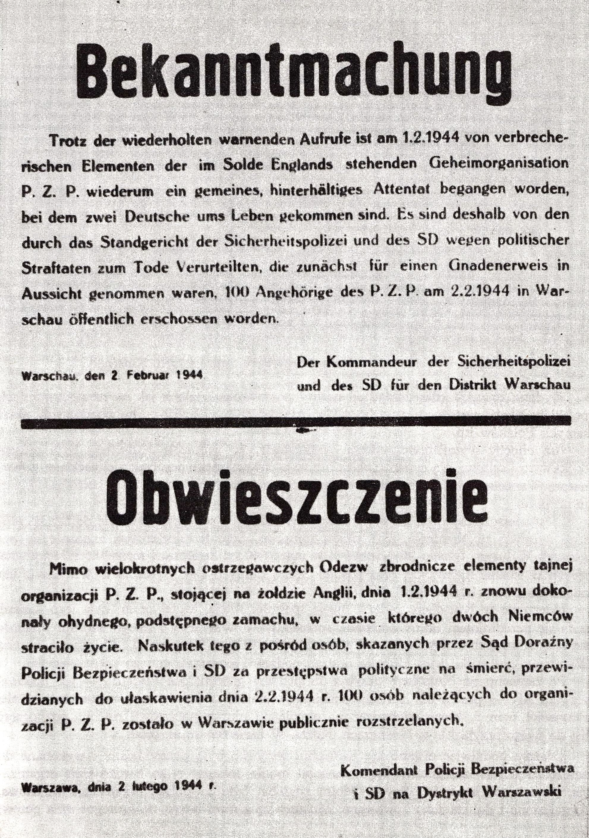 Announcent of 2 February 1944 about the execution of 100 hostages after the assasination of Franz Kutschera and Willi Lübbert